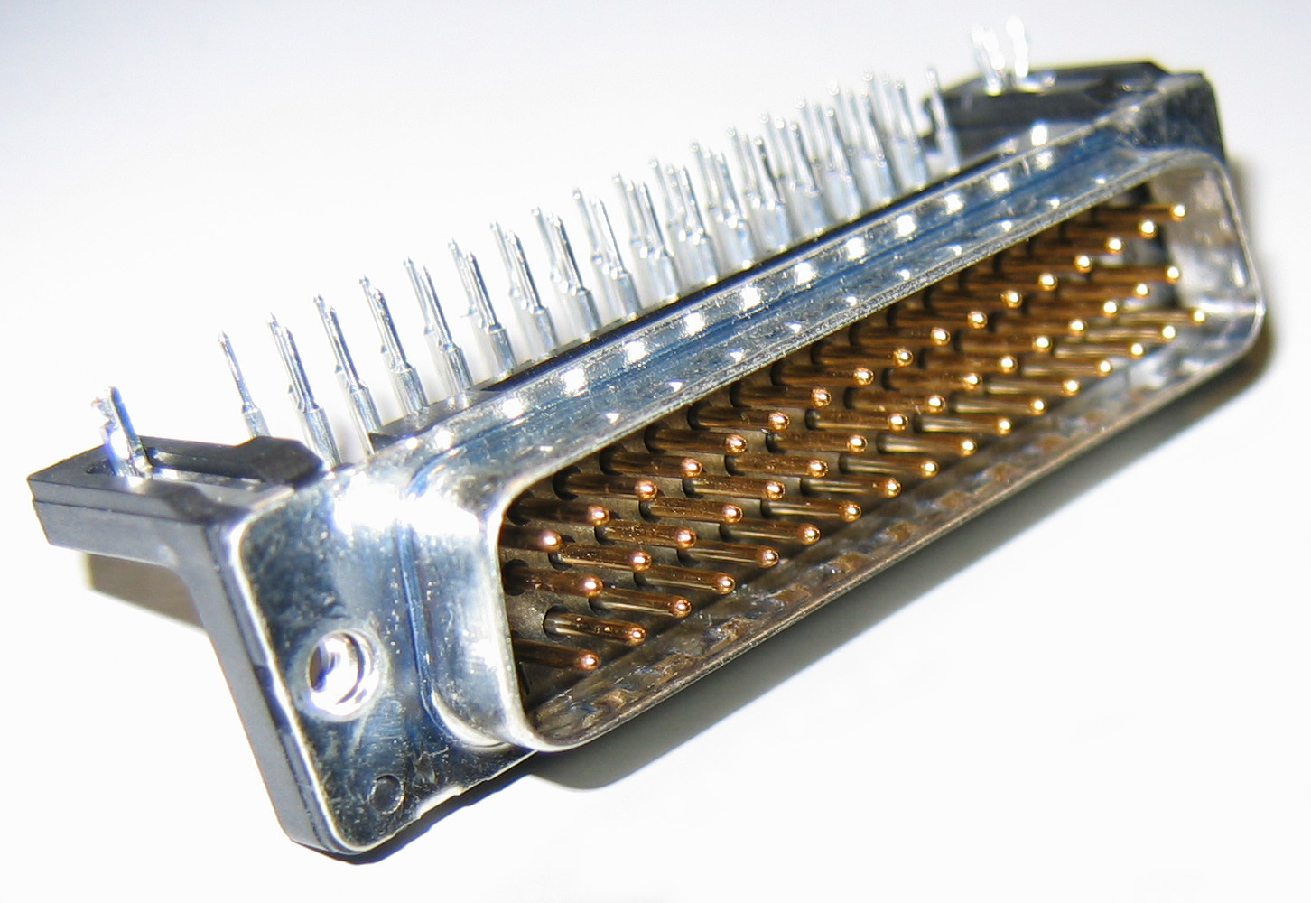 This is a PCB-mounting male DD50 50-way D-subminature connector. It's used on a prototype being built in the lab I'm working in. Farnell part number 804-370.